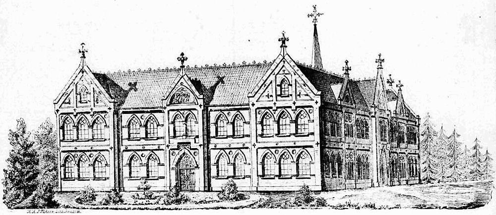 Sint Jozefgesticht, Steenhoffstraat 46, Soest, the Netherlands, perspective.